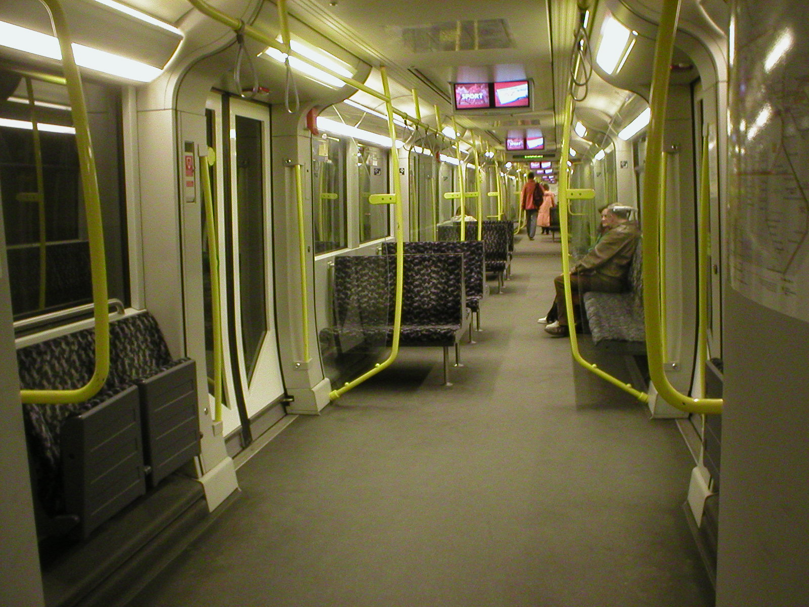 In the Berlin Underground, an unusual cross-seat pattern